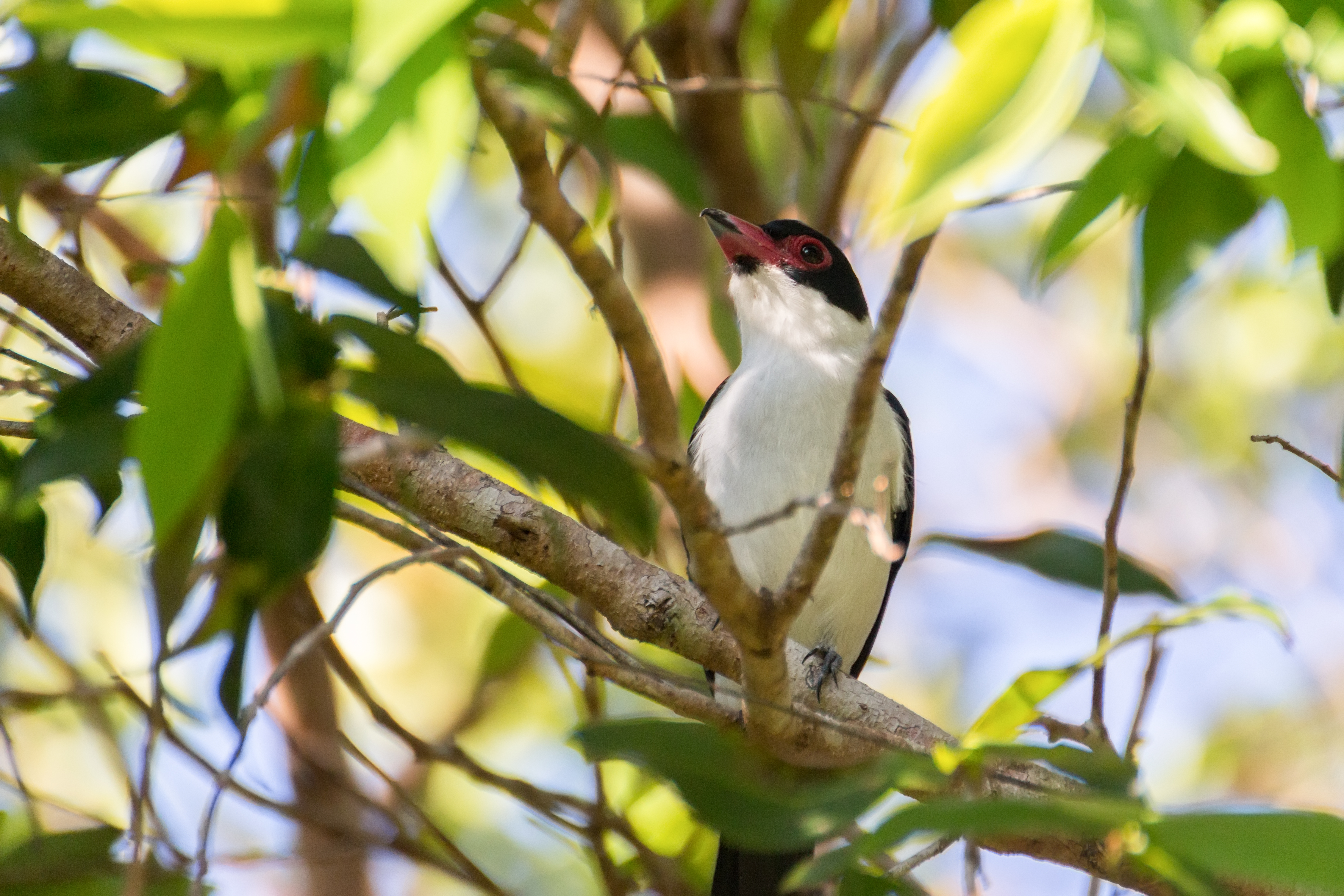 Black-tailed Tityra | Bacaco Benedictino (Tityra cayana cayana) (♂)